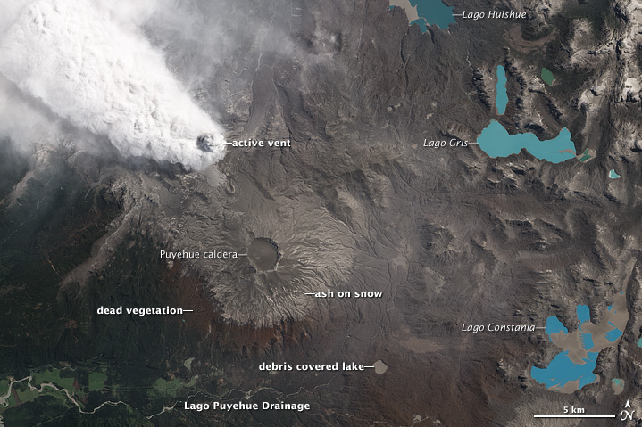 October 22, 2011